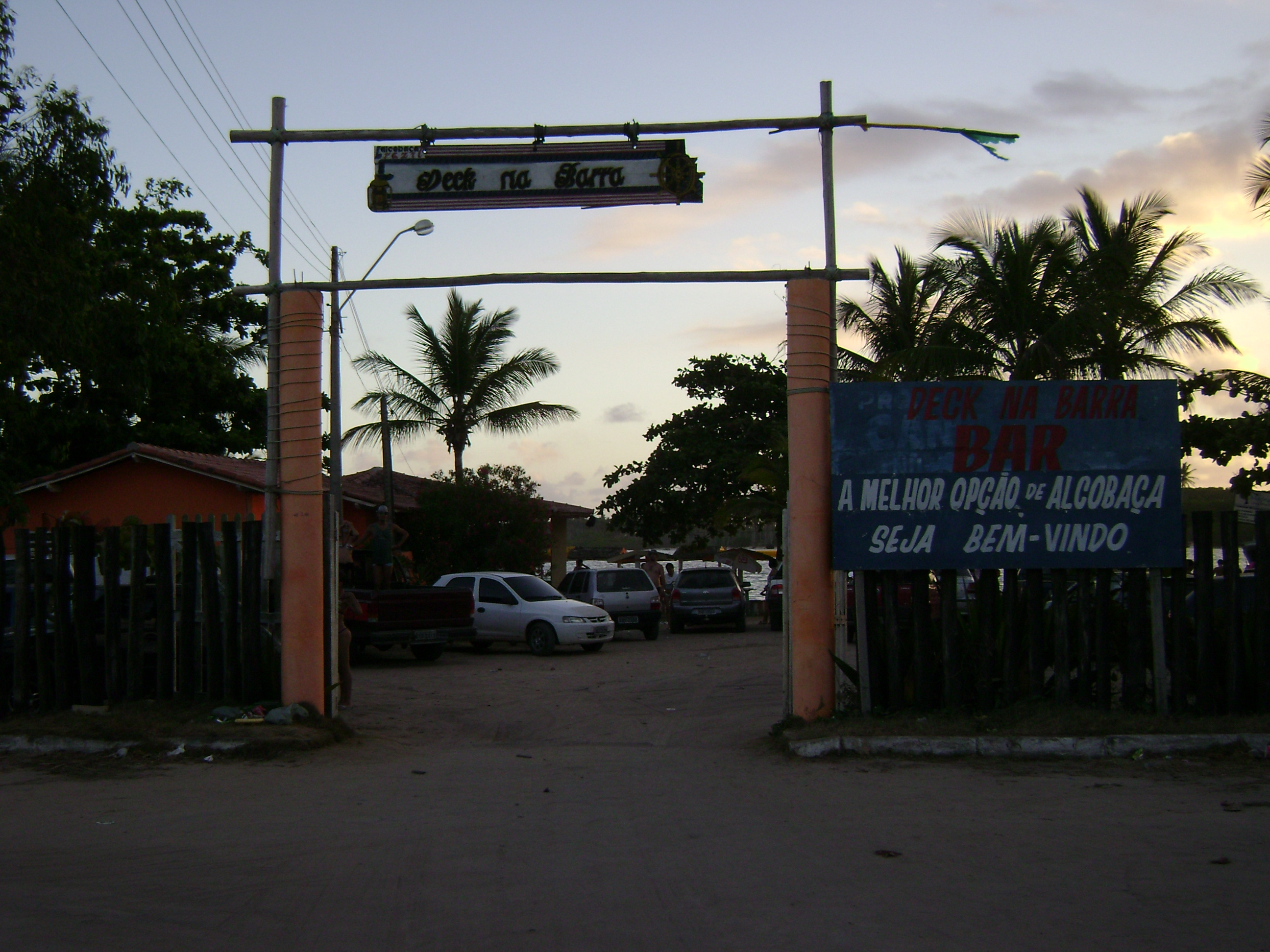 Deck na Barra, in Alcobaça, Bahia, Brazil.